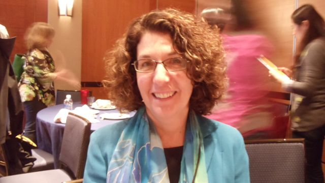 portrait of the HIV researcher